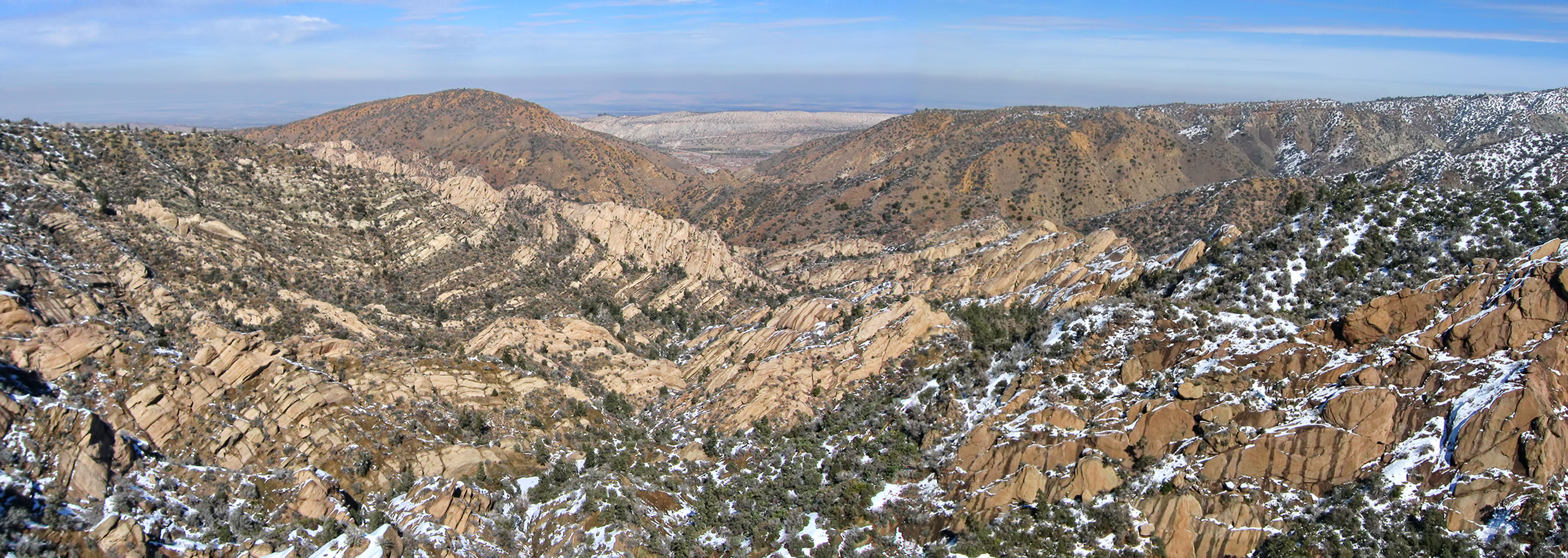 Panorama of the Devil's Punchbowl from the Devil's Chair.